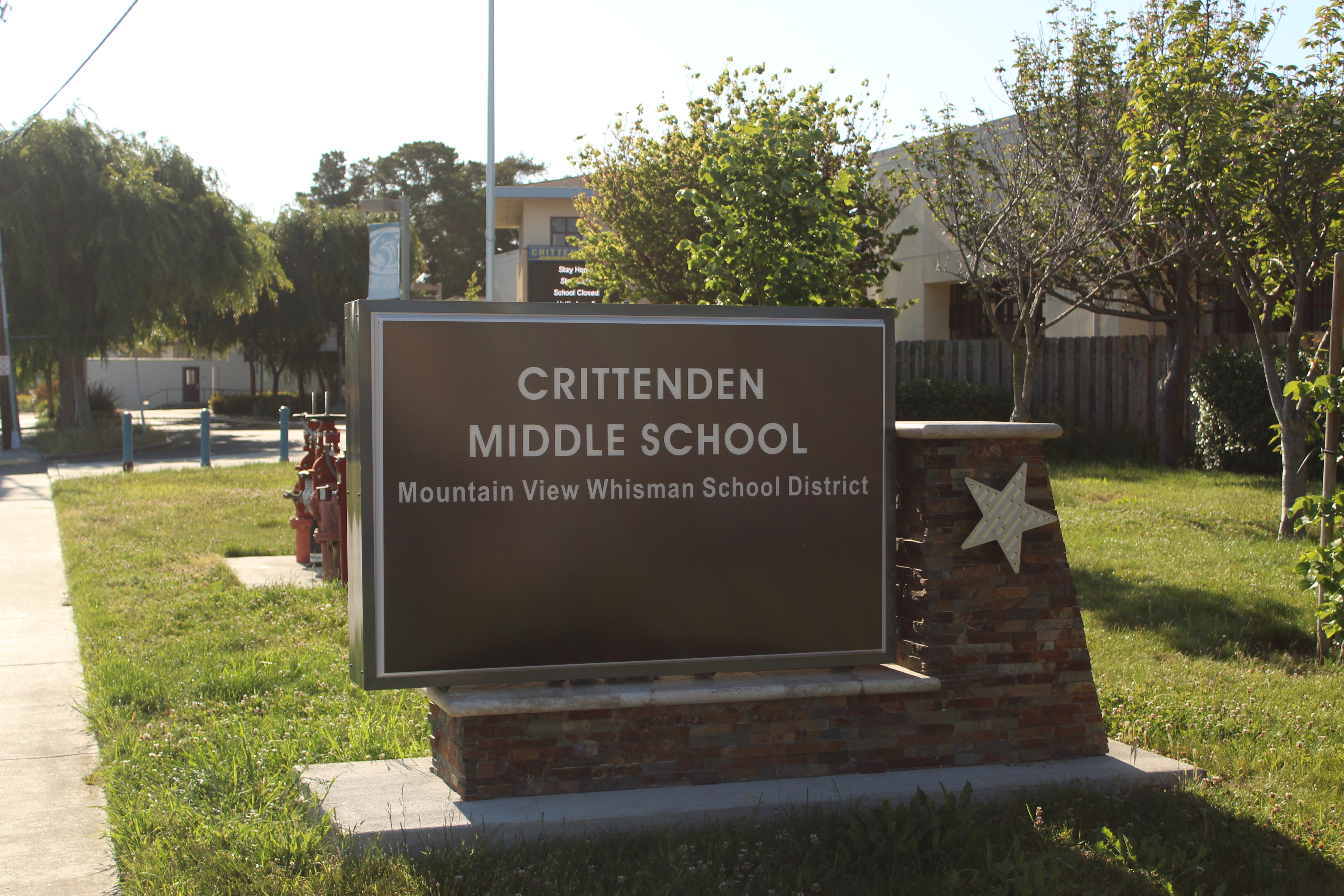 Crittenden Middle School front sign.